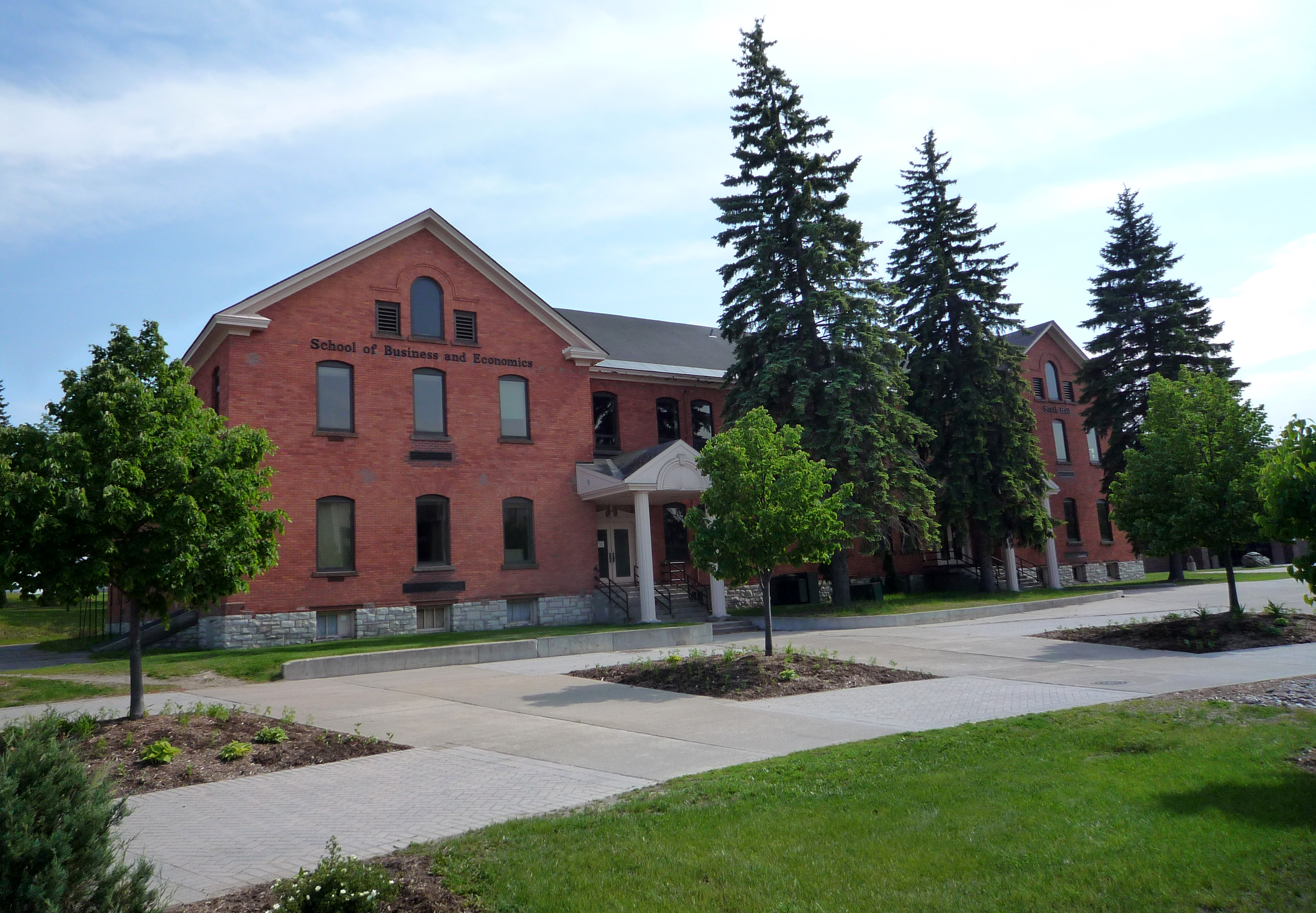 South Hall, Lake Superior State University, Sault Ste. Marie, Michigan, USA. Former barracks of Fort Brady.